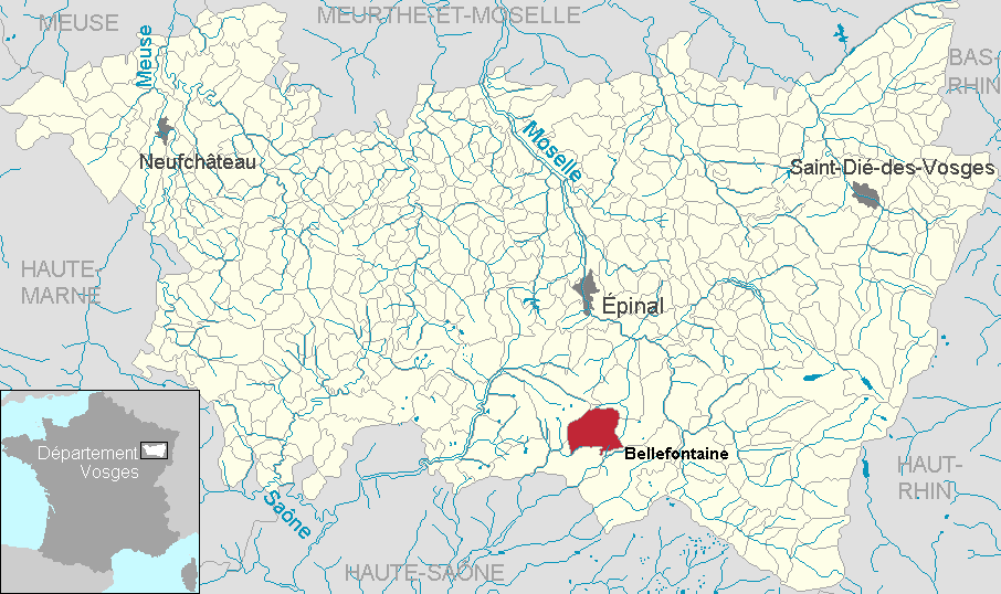 Bellefontaine in the department of Vosges, Lorraine, France